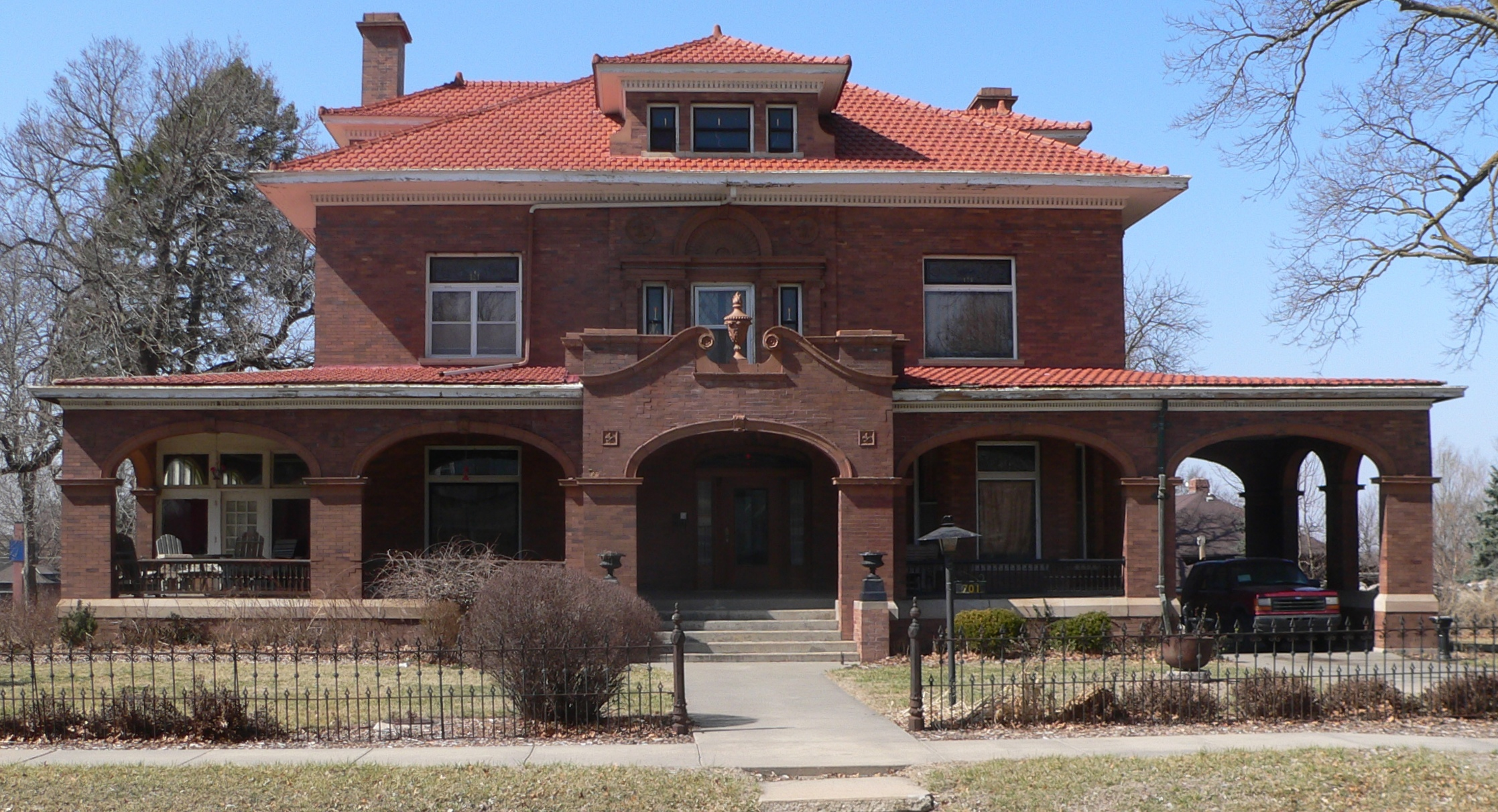 Samuel Kilpatrick house, located at 701 N. 7th Street in Beatrice, Nebraska; seen from the east, across 7th.